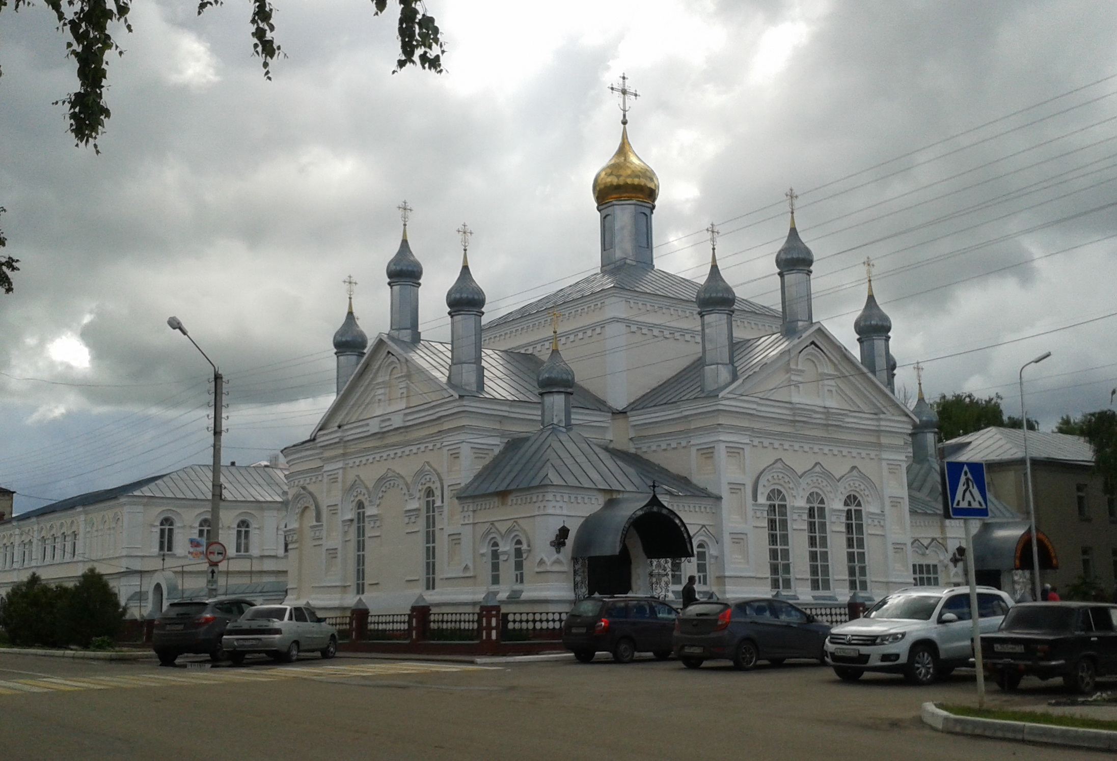 The Republic Of Mordovia. Insar. Holy Olginsky convent